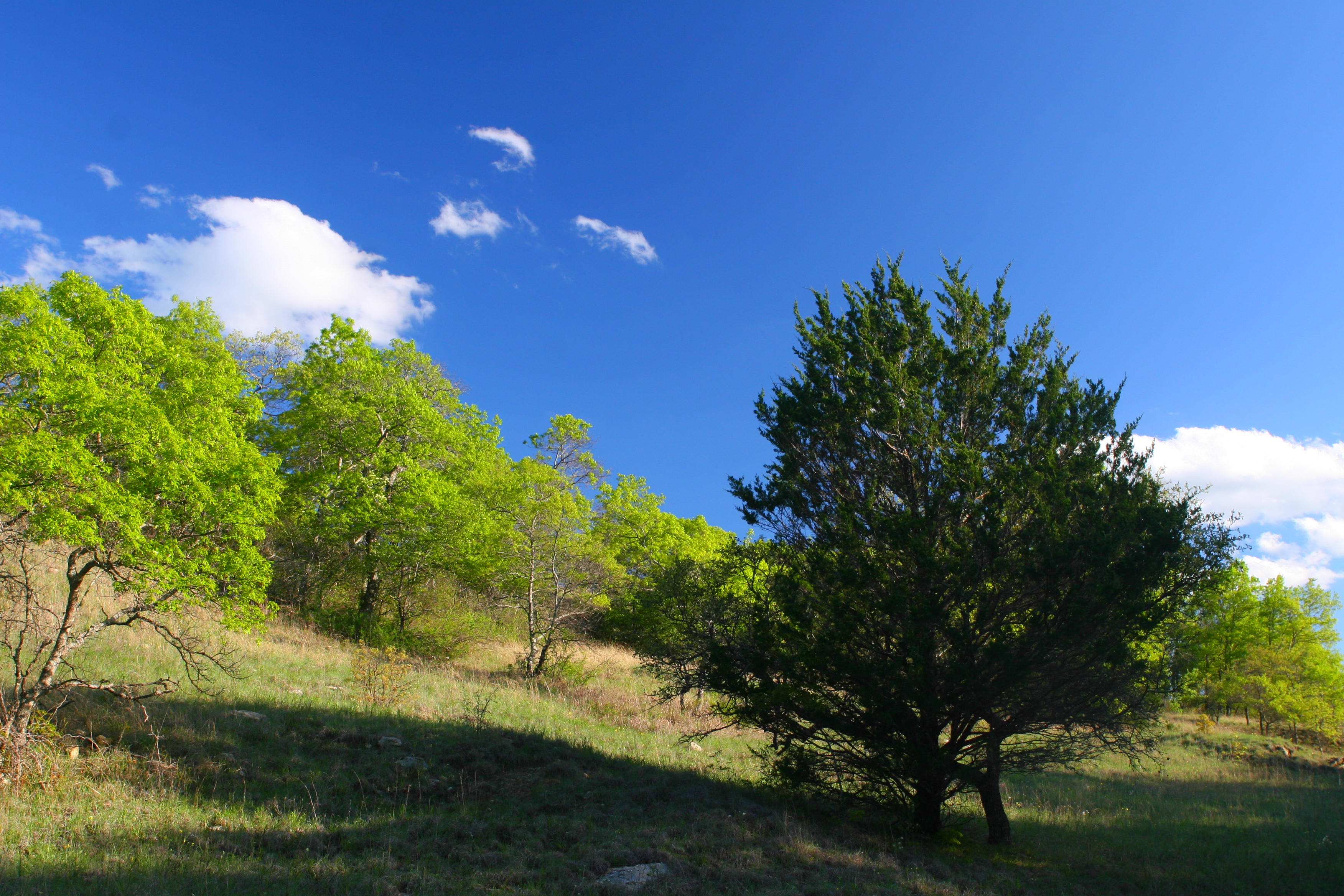 Hillside in Lyndon B. Johnson National Grassland.